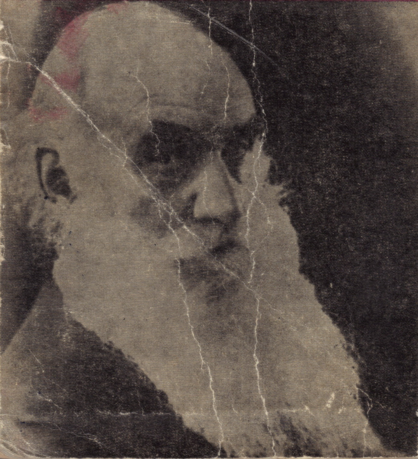 Romanian writer Gala Galaction.